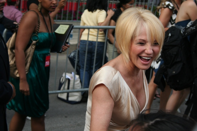 A photograph of Ellen Barkin taken at the Ocean's 13 movie premiere.